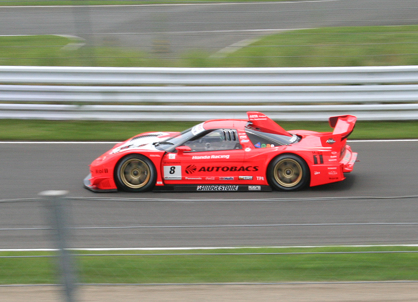 An Autobacs Racing Team Aguri(ARTA) Honda NSX in the SuperGT series.